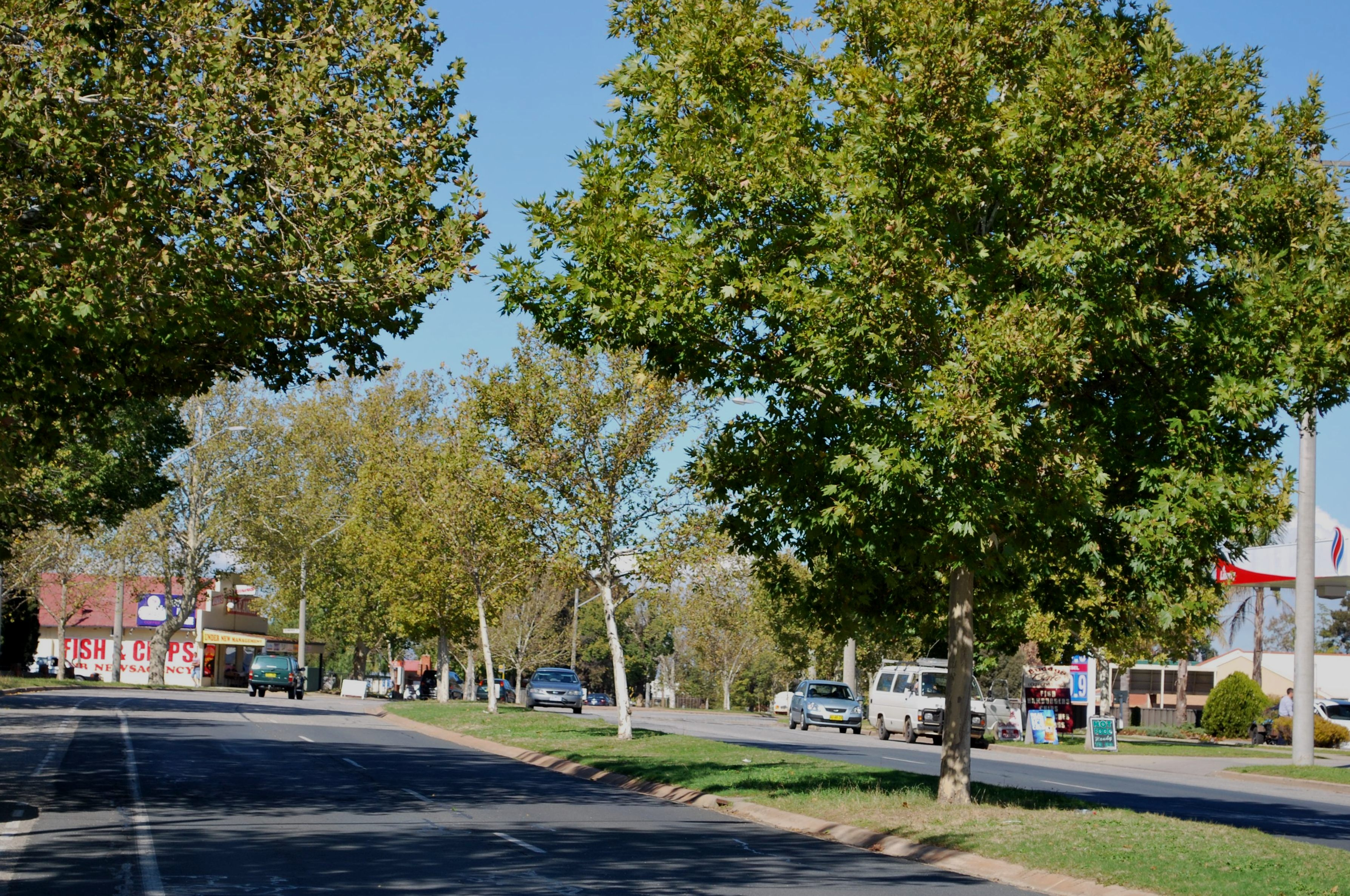 Urana Road, Lavington, New South Wales